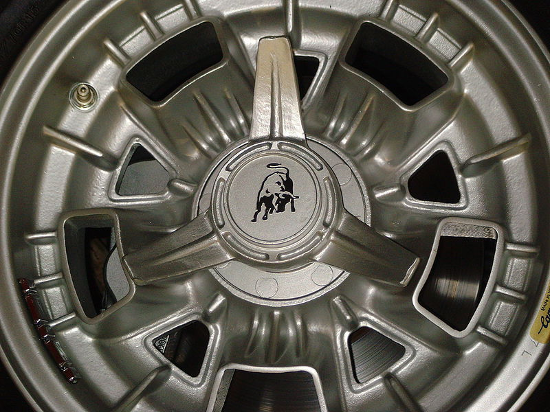 Magnesium wheel of Lamborghini Espada made by Campagnolo. At "Retro Classics Stuttgart 2010"